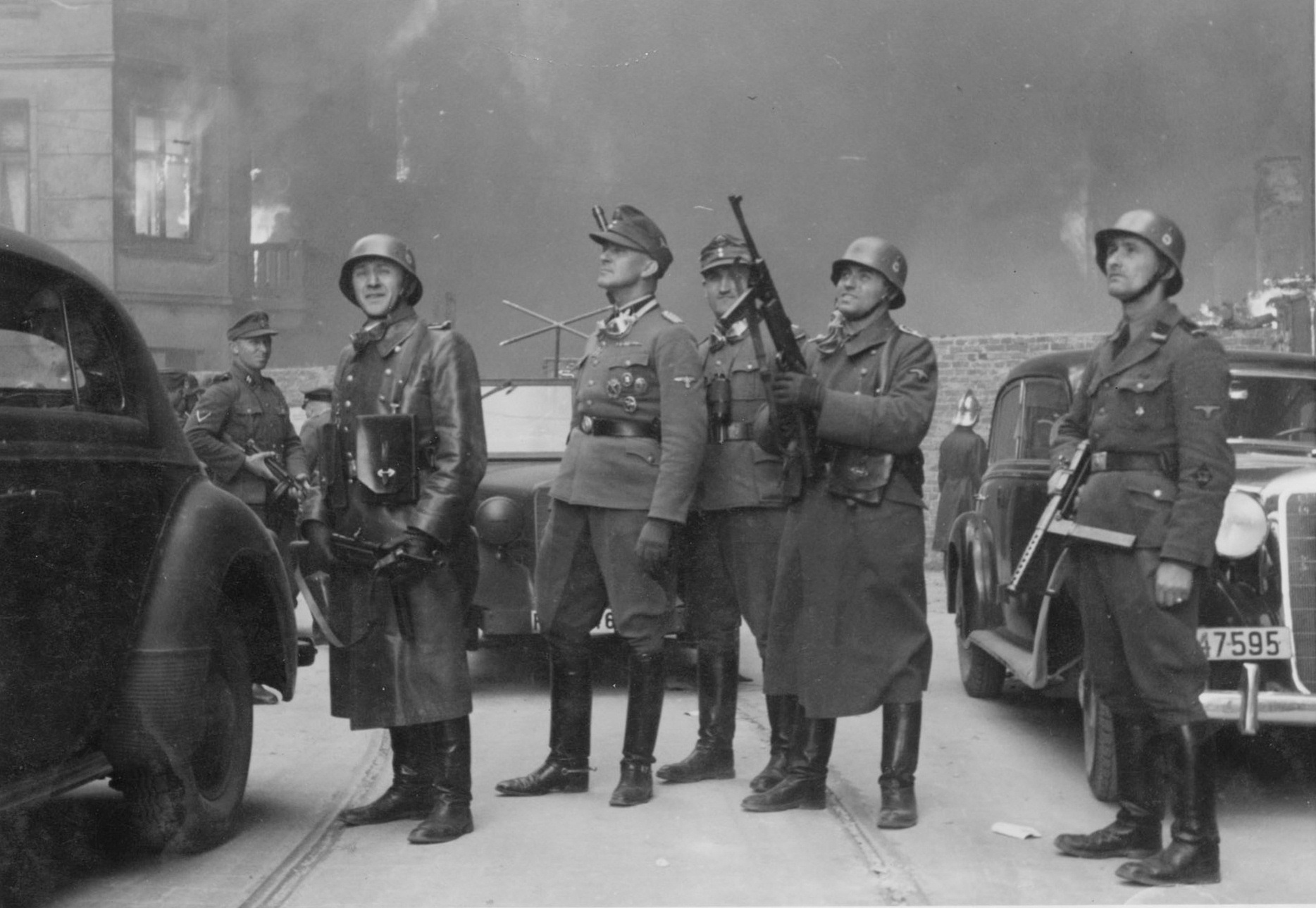 Stroop Report: a report written by Jürgen Stroop for Heinrich Himmler about liquidation of Warsaw Ghetto in May 1943.